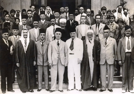 Delegates to the Bloudan, Syria conference on Palestine in September 1937. Front row right to left: Hamad Bey Saab, one of the commanders of the Great Palestinian Revolution of 1936-1937 – Iraqi nationalist Said El-Haj Thabet – Ali Bey Ebeid – Riad El-Solh, Prime Minister of Lebanon – Syrian nationalist Ihsan Bey Al-Jabri – Eltaher – Mohamed Mohieddin Al-Halabi Pasha - All the others unknown.